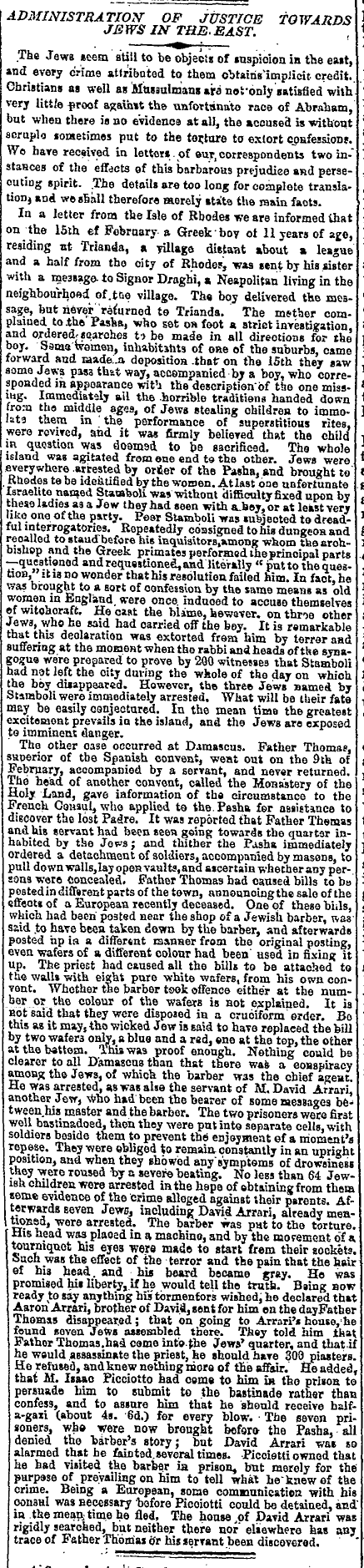 Rhodes and Damascus affairs, The Times, Saturday, Apr 18, 1840